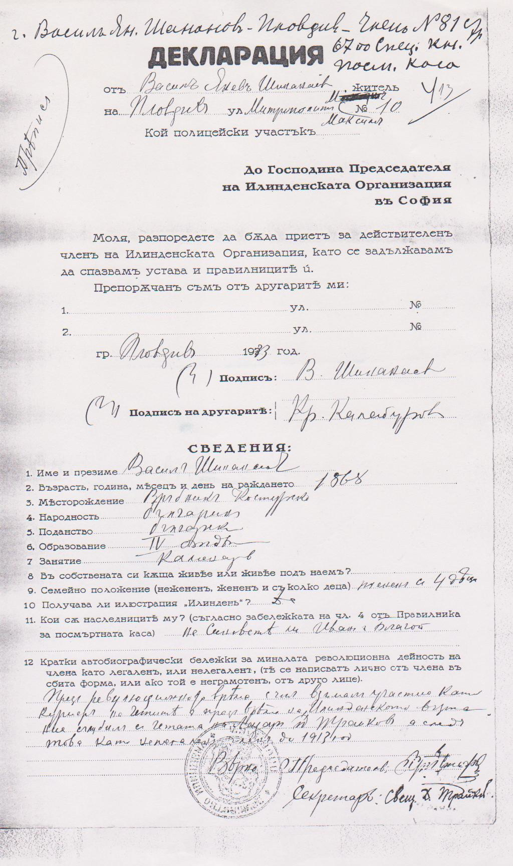 Declaration of Vasil Shinanov on joining the Ilinden organization with notes about his revolutionary activities, 1933.